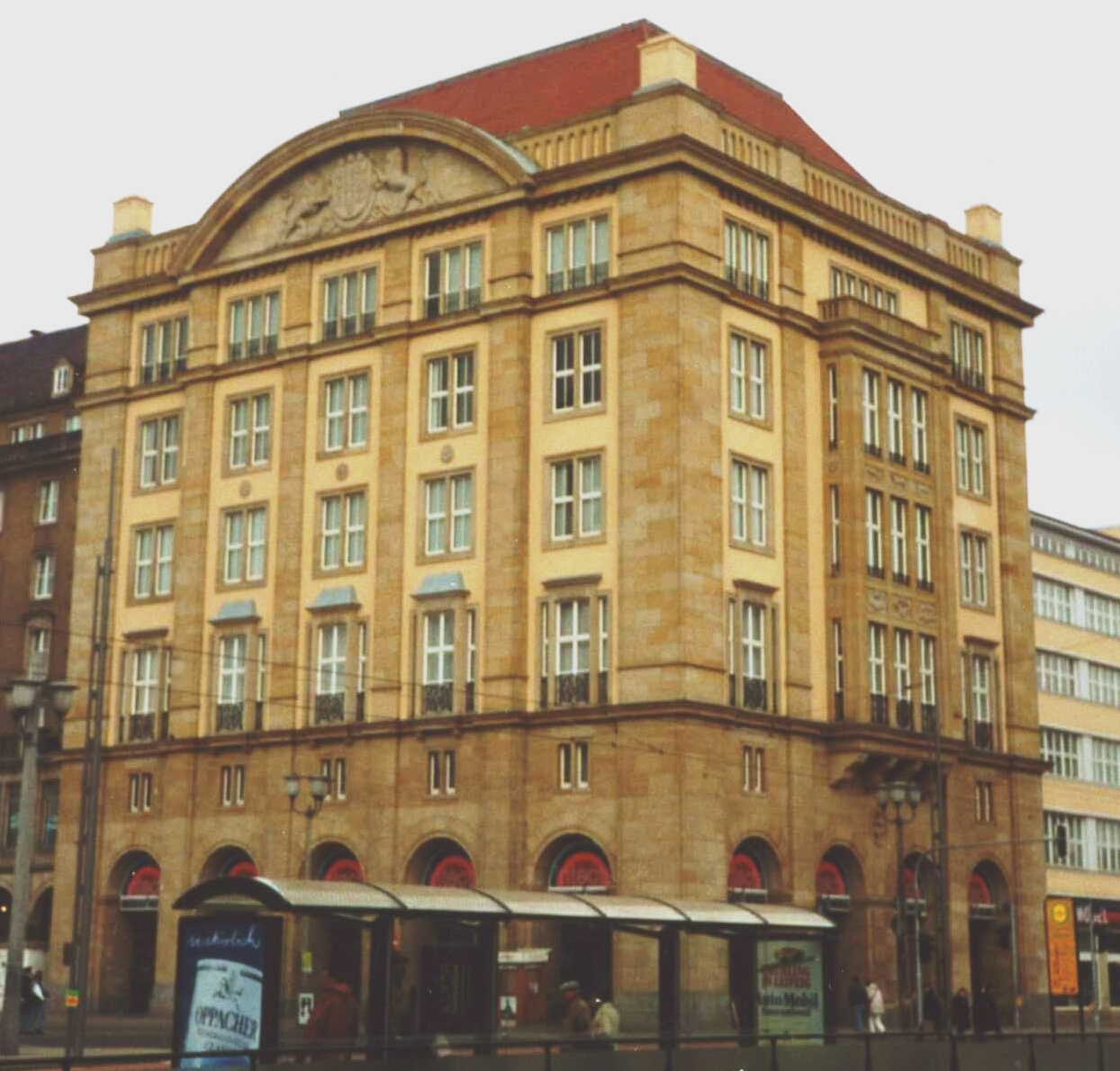 Dresden, Altmarkt/Wilsdruffer Straße, intecta furniture store, former Centrum department store